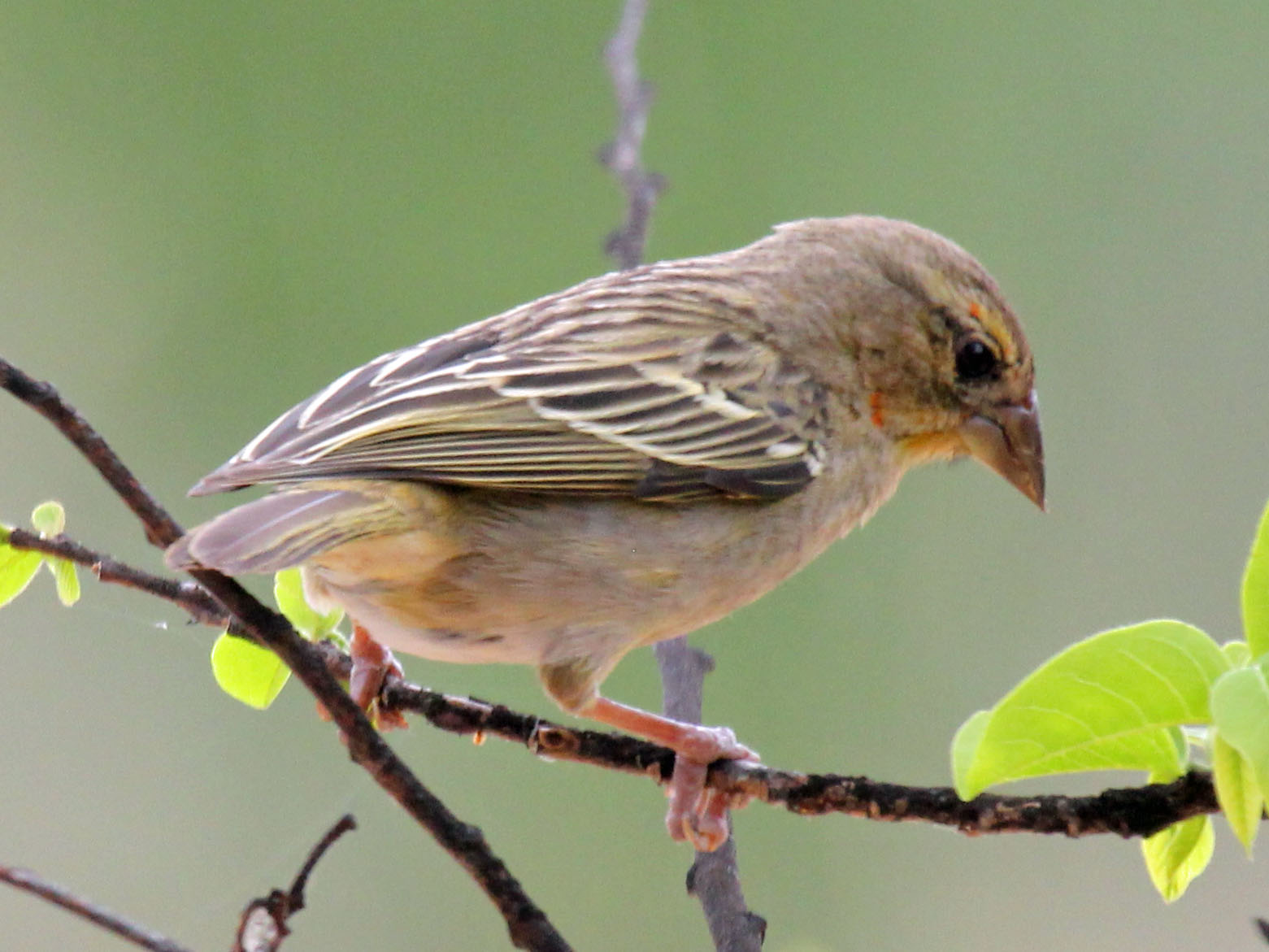 Female Sakalava Weaver (Ploceus sakalava) - near Isalo, Madagascar